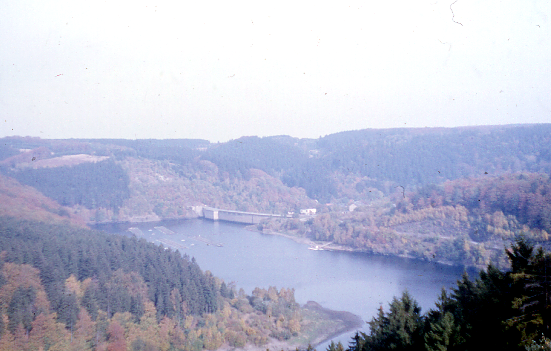 View from the Rappbode Dam